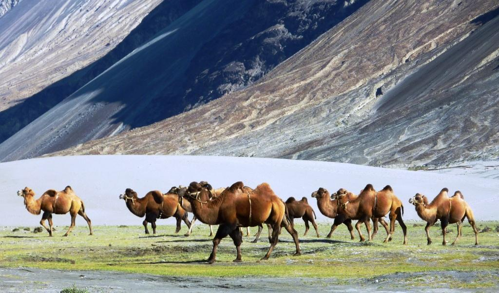 I took this photo on a trip last year